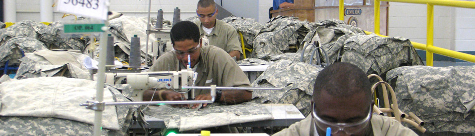 Prisoners work in a UNICOR (Federal Prison Industries - UNICOR is the trade name) program producing military uniforms. UNICOR logo is visible in the background.